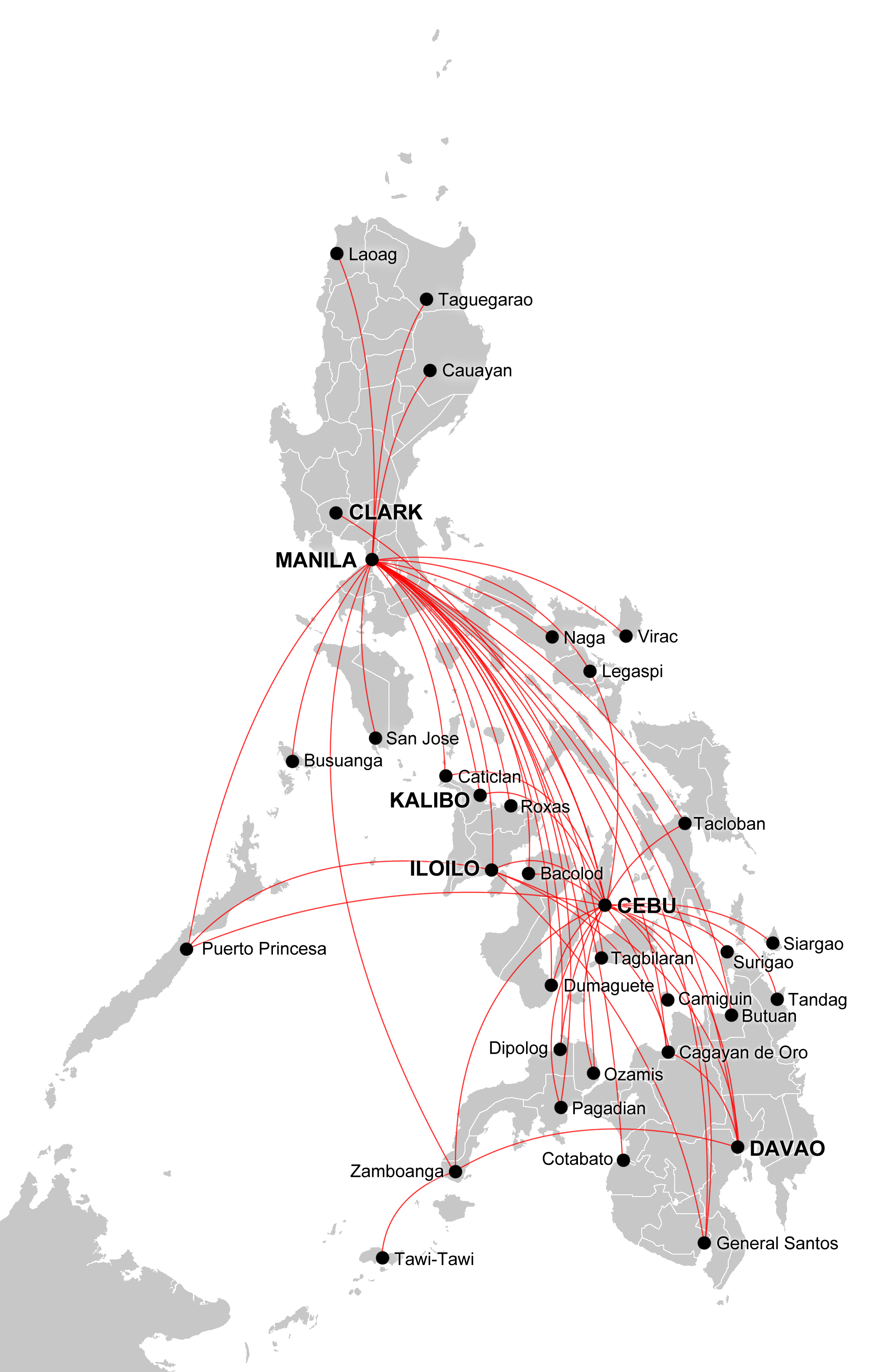 Domestic (Philippines) route map of Cebu Pacific as of August 2015. Based on the flight schedule at the Cebu Pacific website